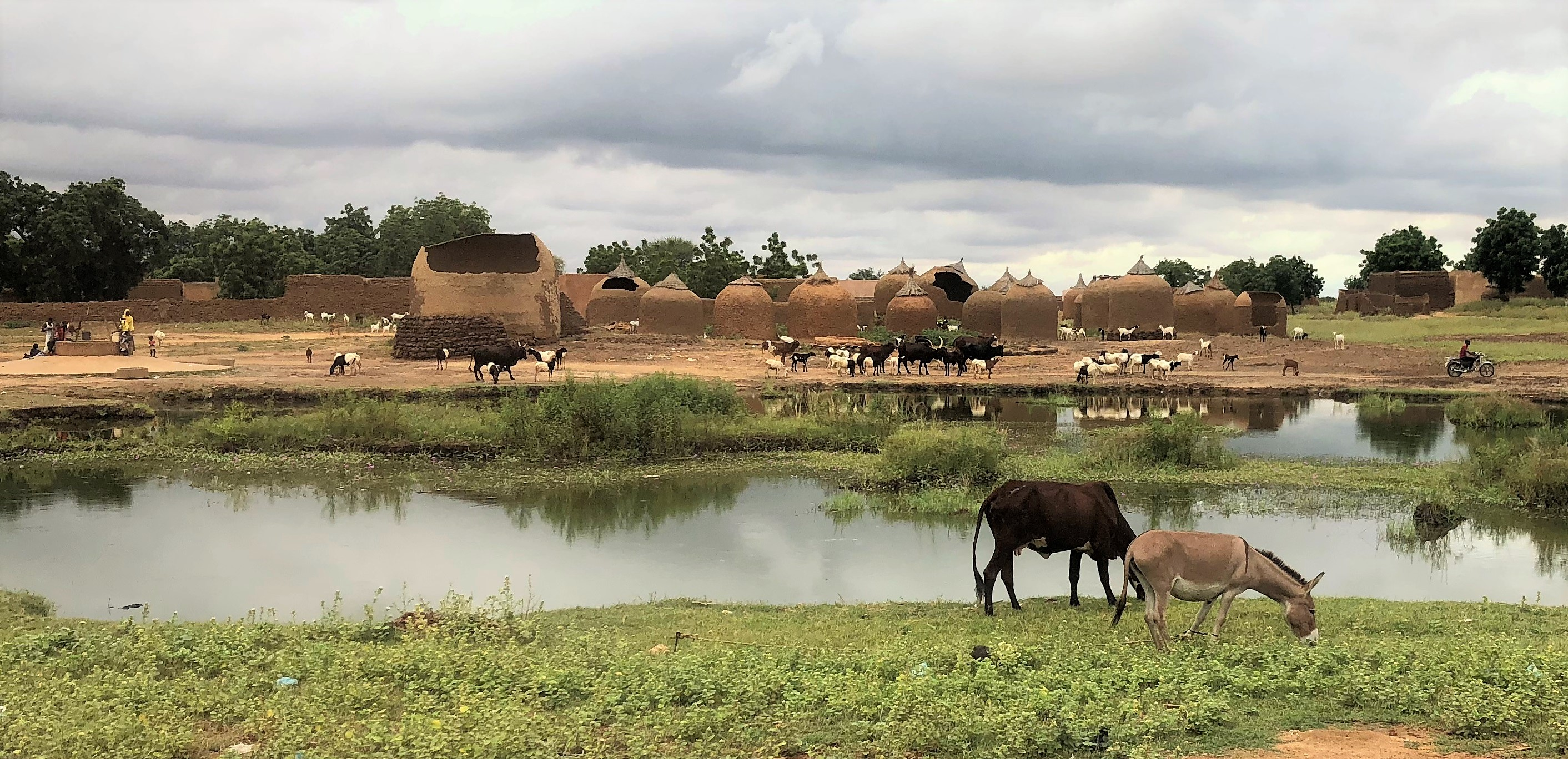 Roadside view of Salewa in Niger, with the typical Haussa dome-shaped grain storage huts (Tahoua region; Birni N'Konni department, Malbaza commune).